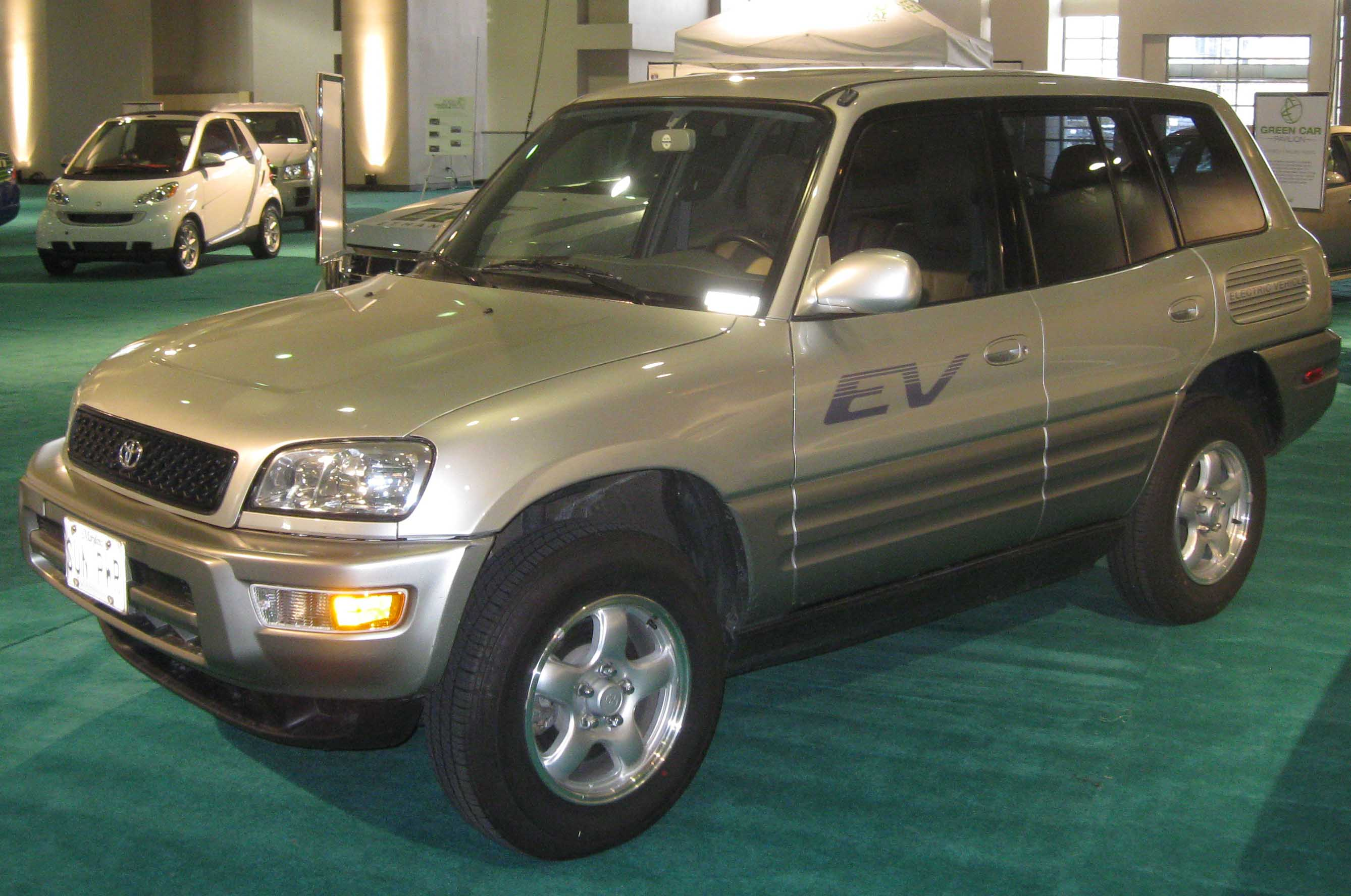 Toyota RAV4 EV photographed at the 2009 Washington DC Auto Show.